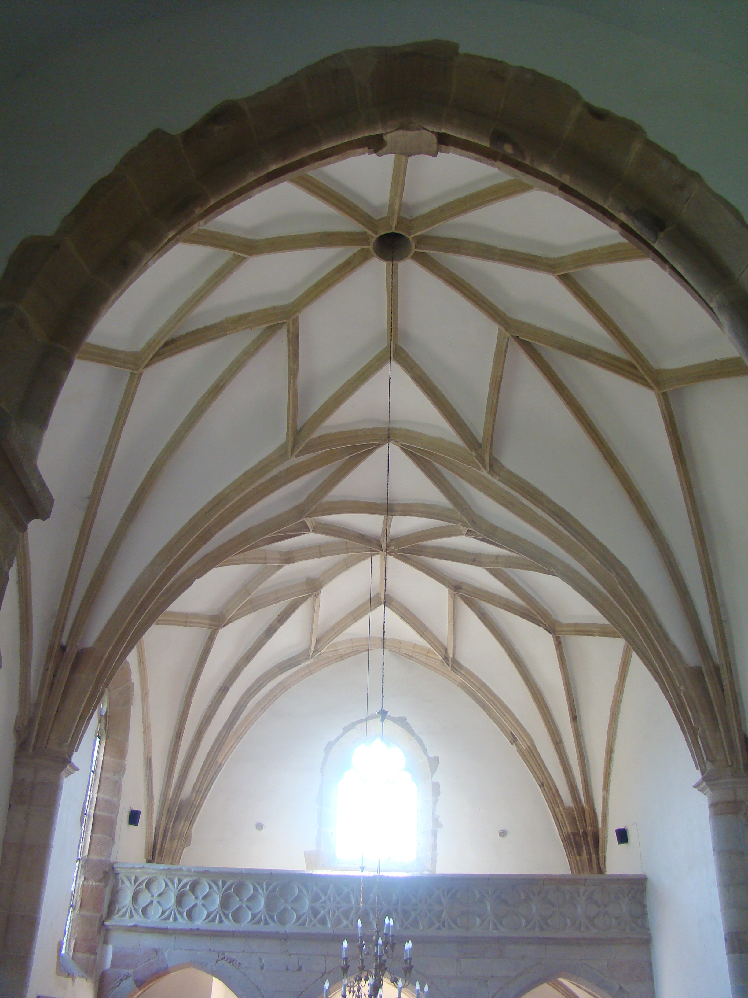 Lutheran church in Tărpiu, Bistrița-Năsăud county, Romania